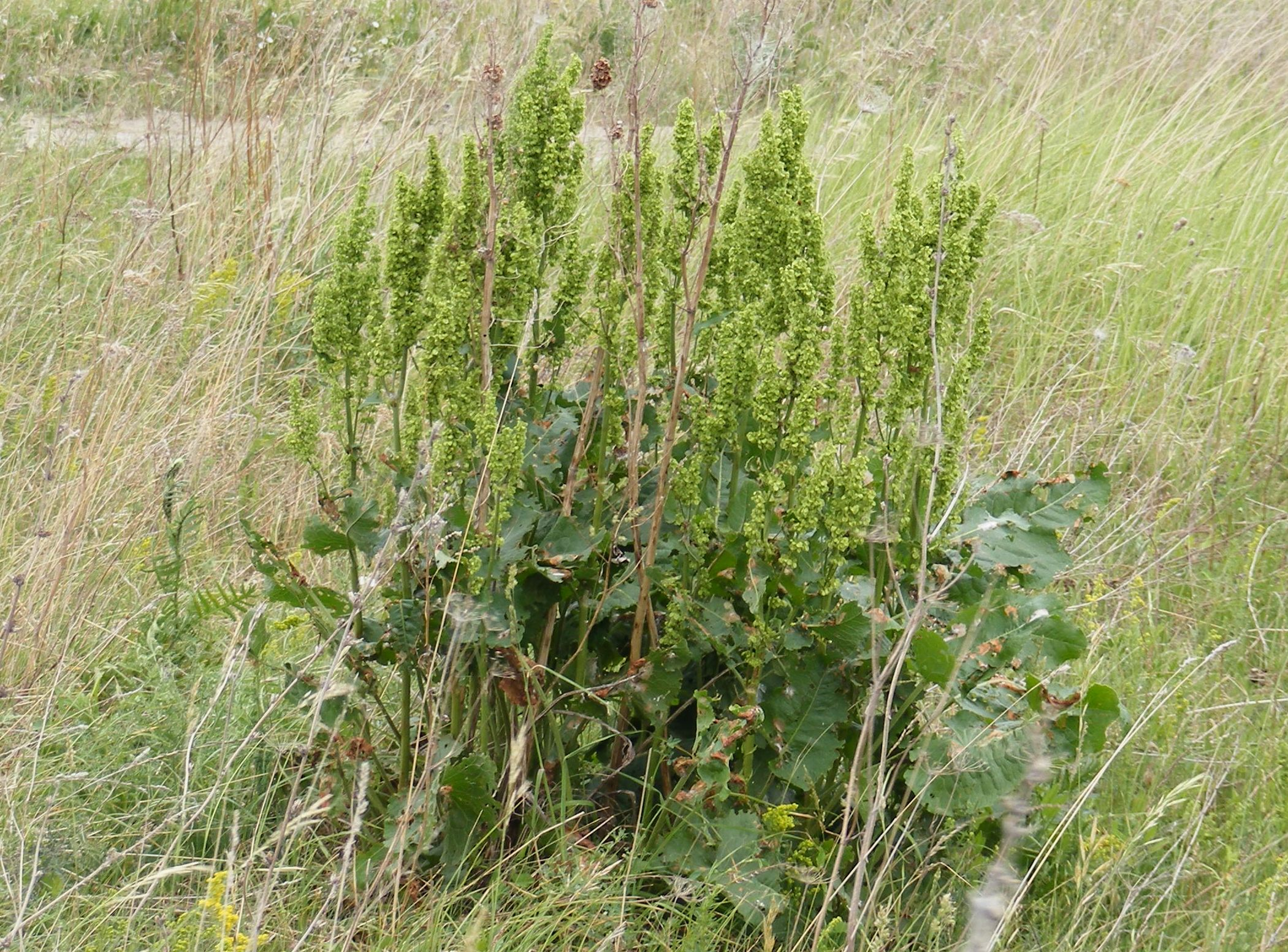 Rumex confertus Willd. Russia, Mordovia.